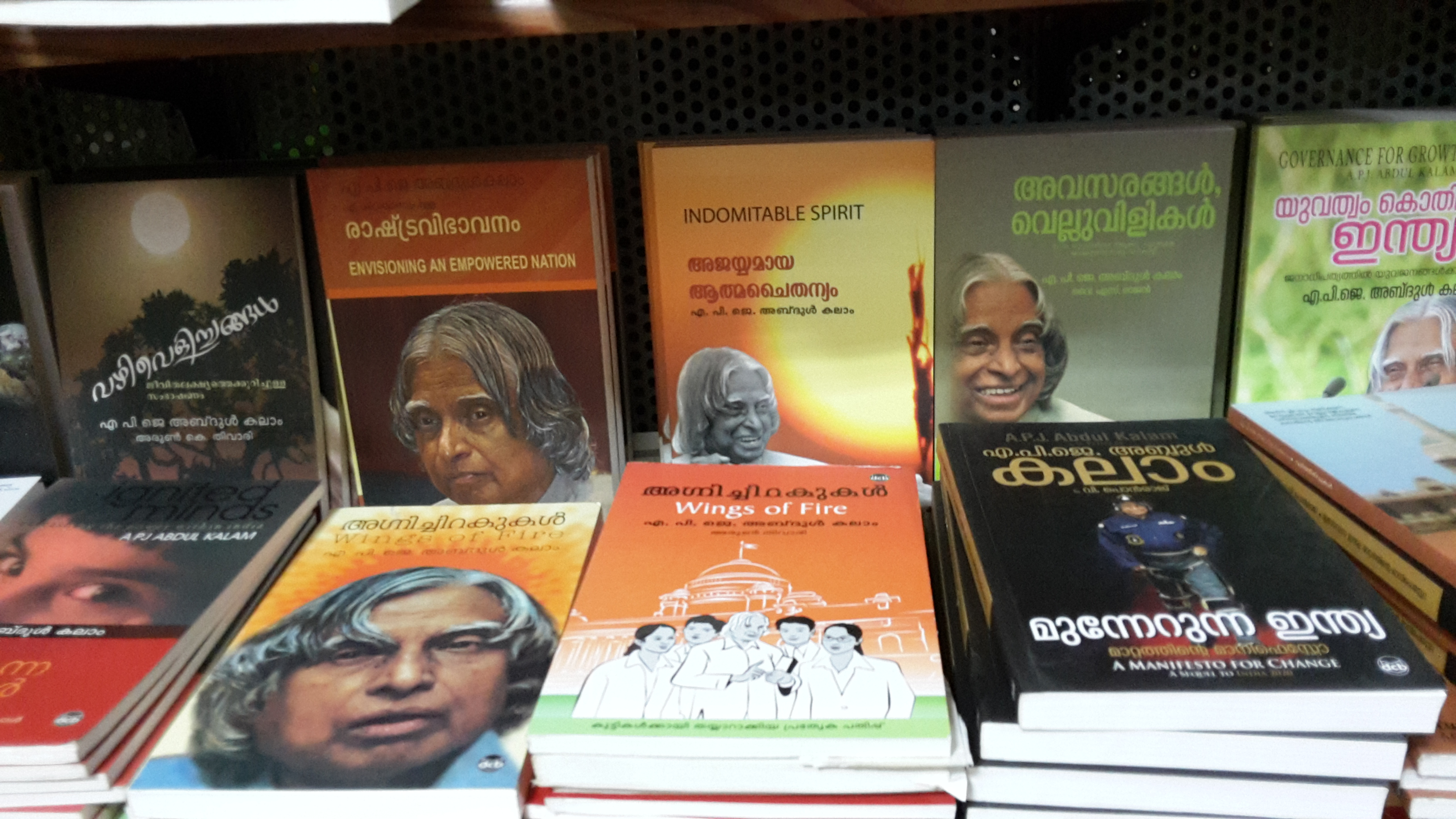 Malayalam Translations of APJ Abdul Kalam's Books published by DC Books